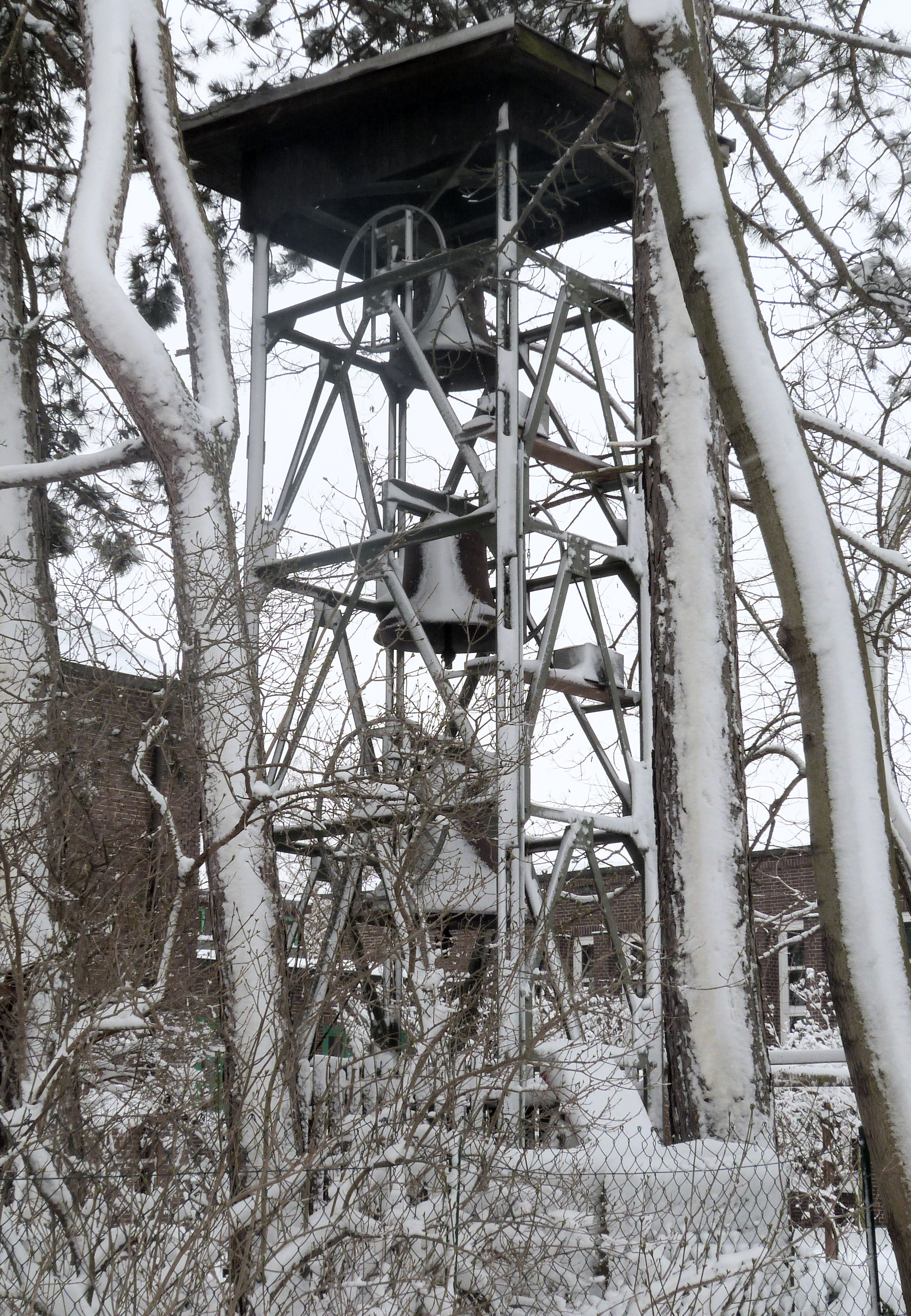 Bell tower of the Gesundbrunnen church, Halle (Saale)